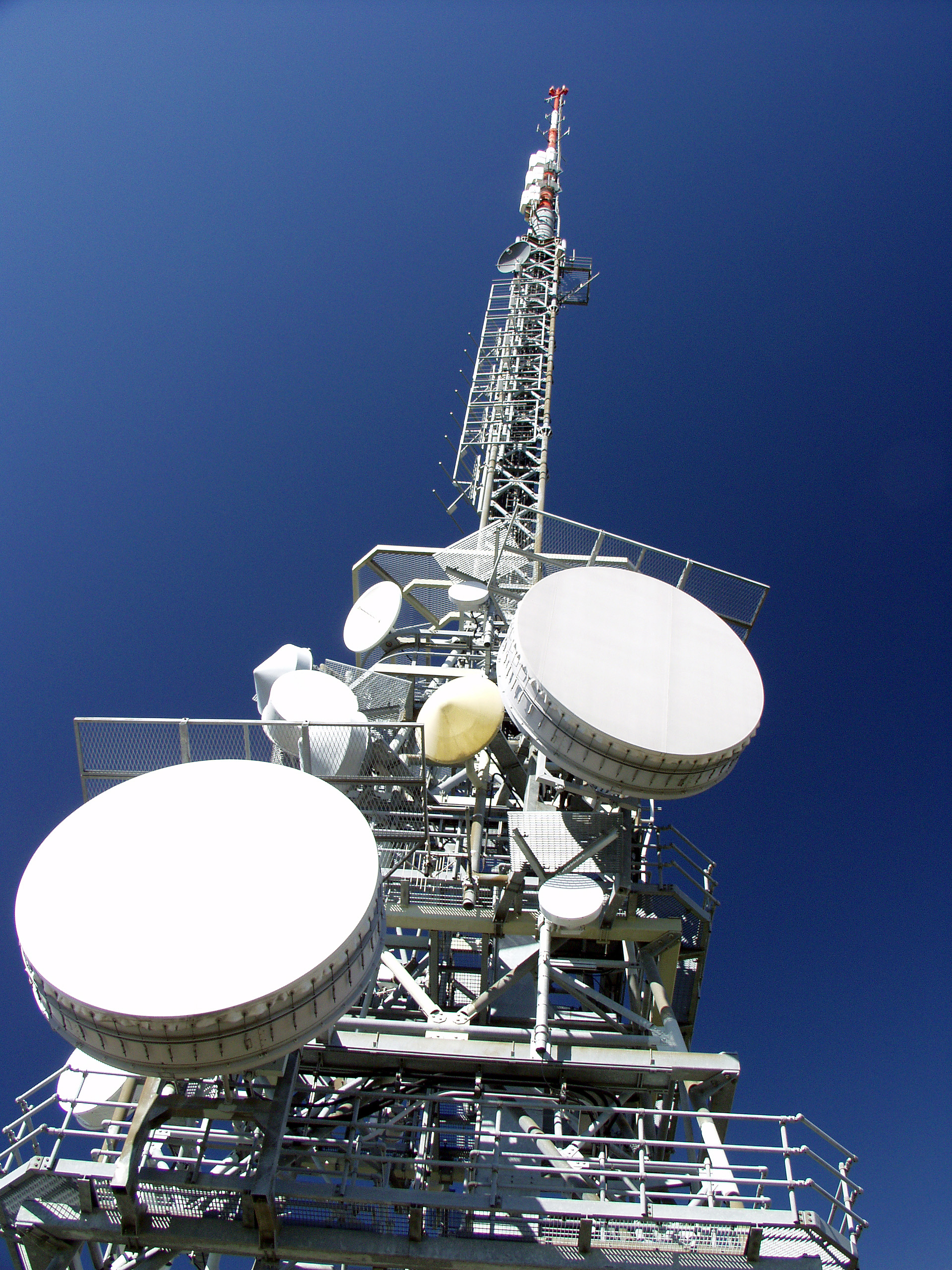 Microwave radio relay tower on Cimetta mountain (Ticino, Switzerland)